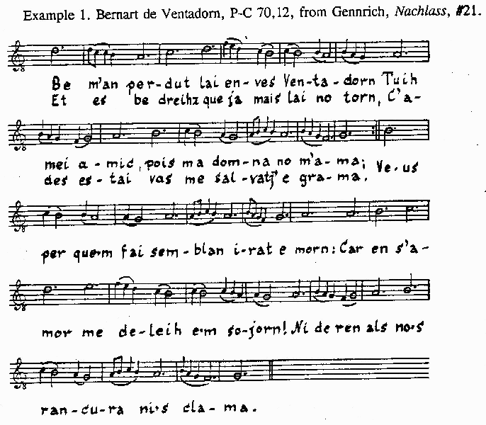 Bernart de Ventadorn's music score.